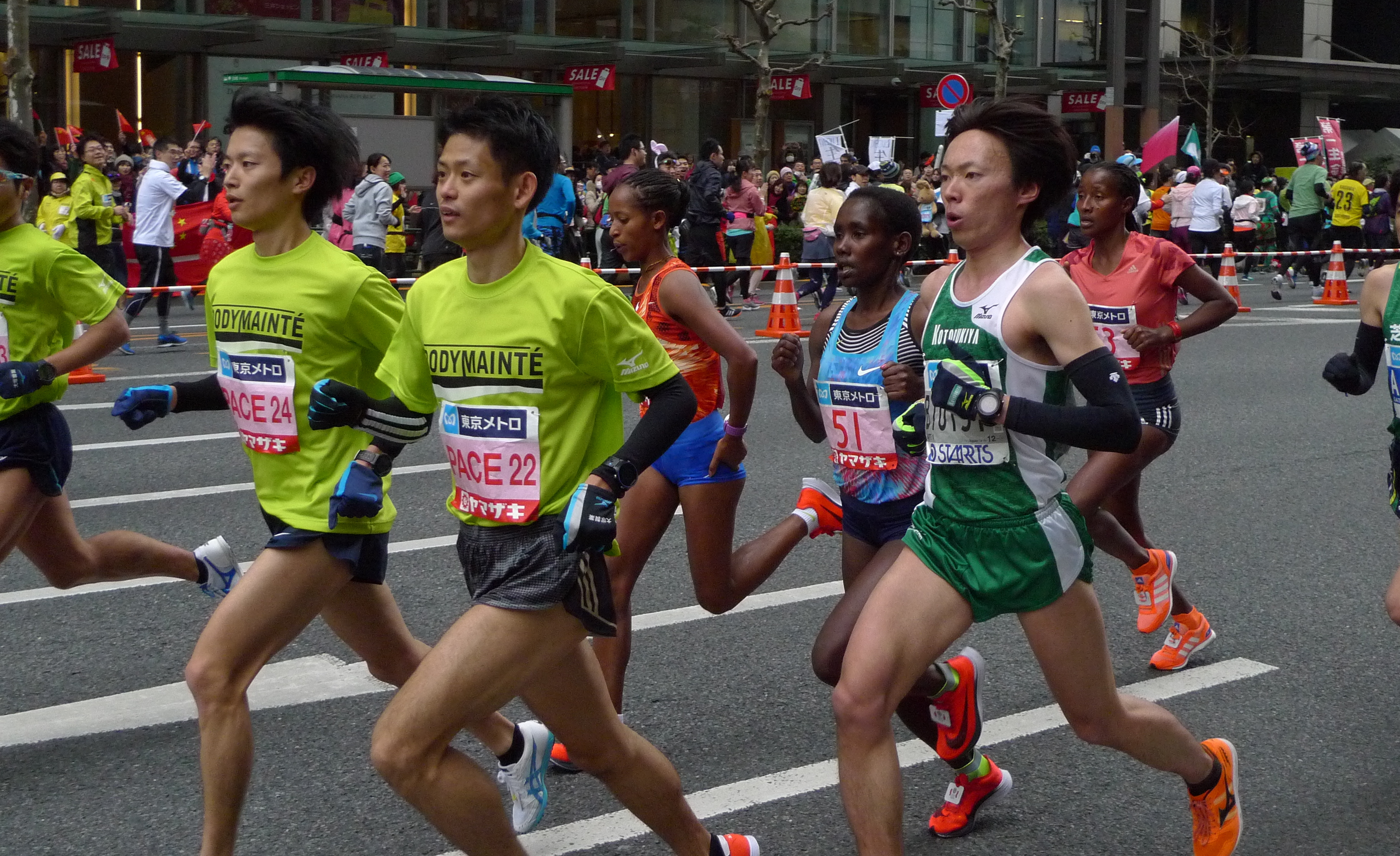 Tokyo Marathon 2018 Runner